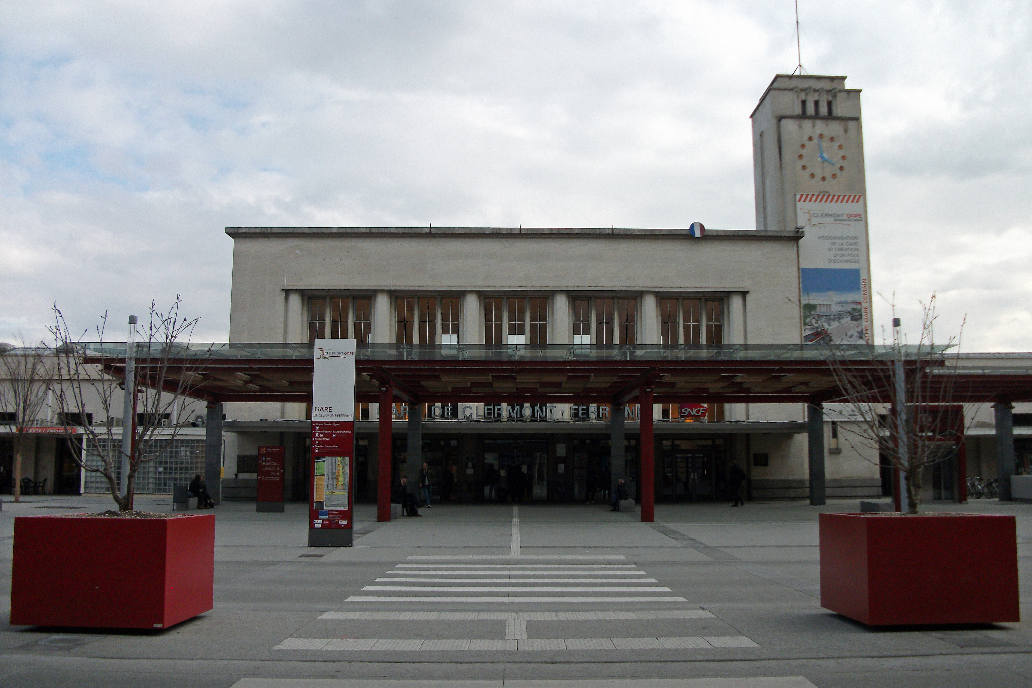 Main entrance of Clermont-Ferrand railway station. A shelter hides the name of the station.